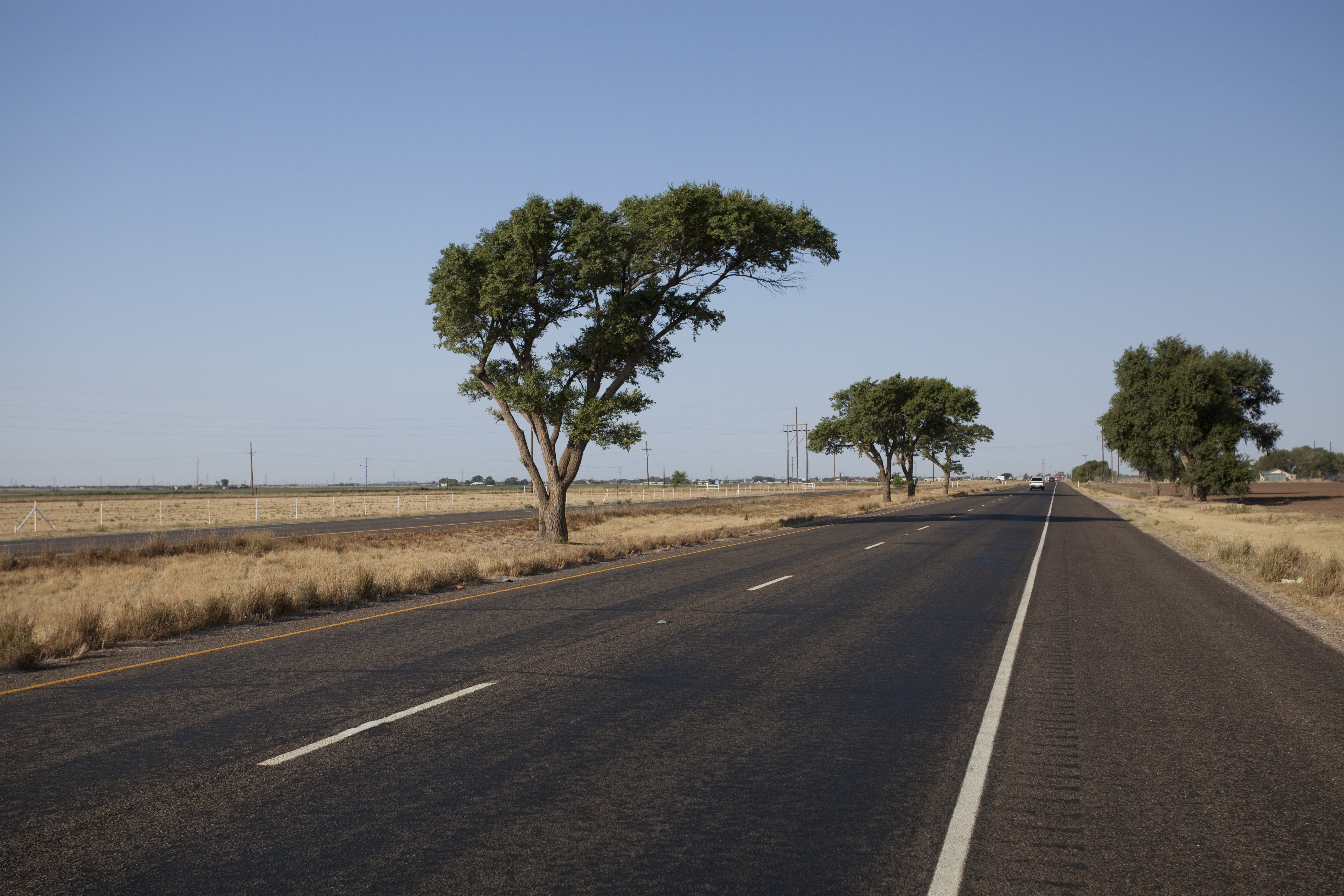 Shade trees on U.S. Highway 82 as it crosses the level plains of the Llano Estacado, Lubbock County, Texas.